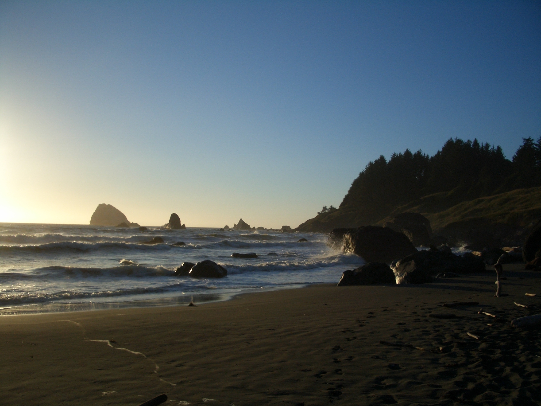 "Hidden Beach" in Redwood National Park, California accessible via trail from the "Trees of Mystery" in Klamath.